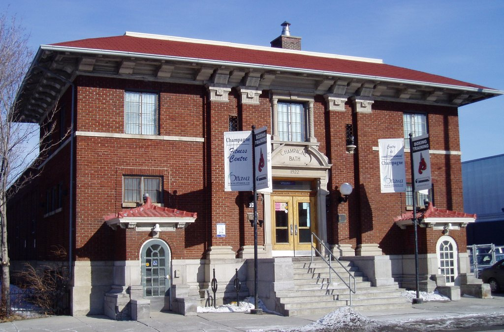 Taken by SimonP in February 2005